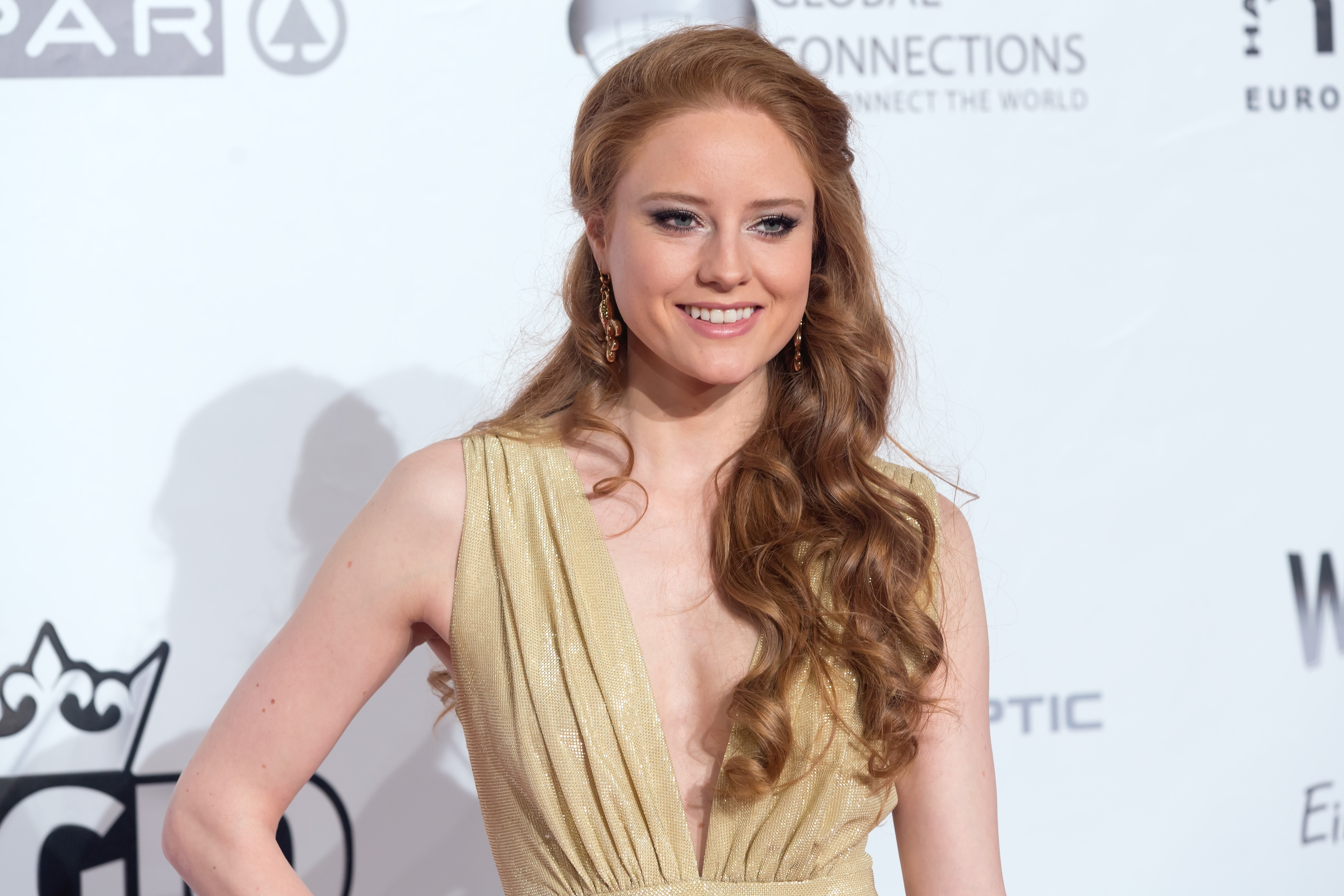 Barbara Meier on the red carpet of the Filmball Vienna at Rathaus, Vienna, Austria.